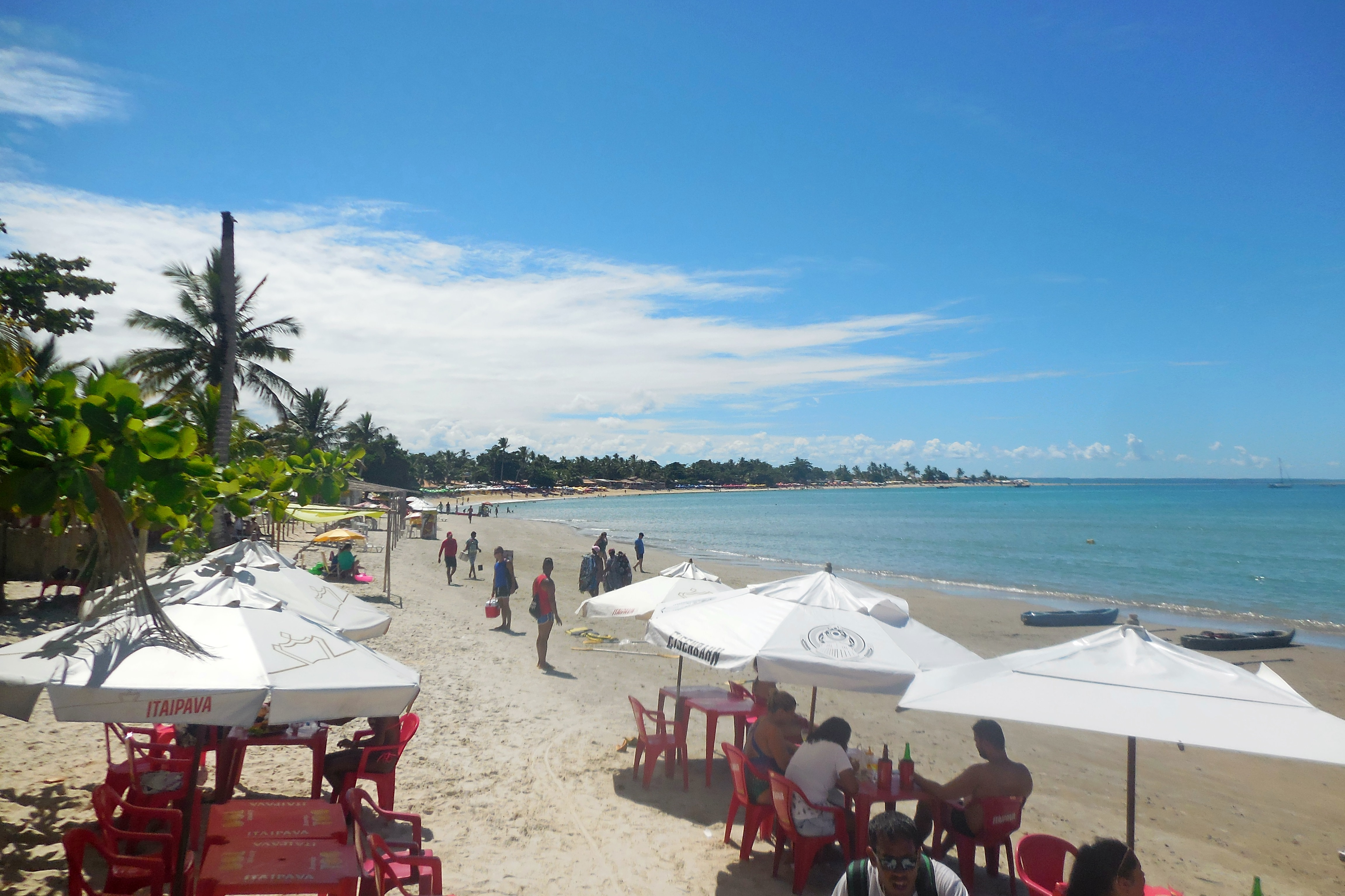 View of the Coroa Vermelha beach, in Santa Cruz Cabrália, Bahia, Brazil.